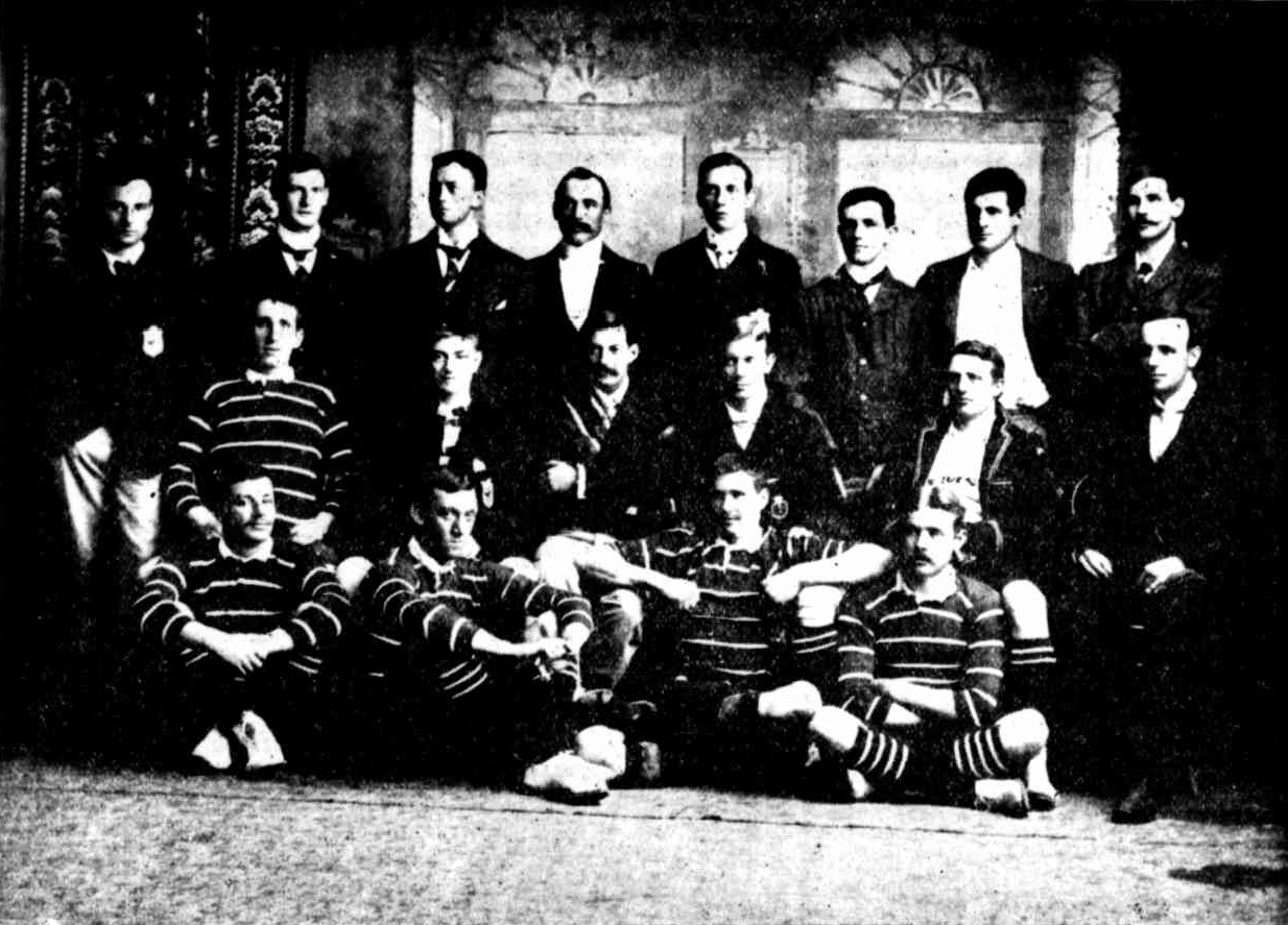 Team photo of the British Rugby team, including two delegates of the Perth Rugby Union